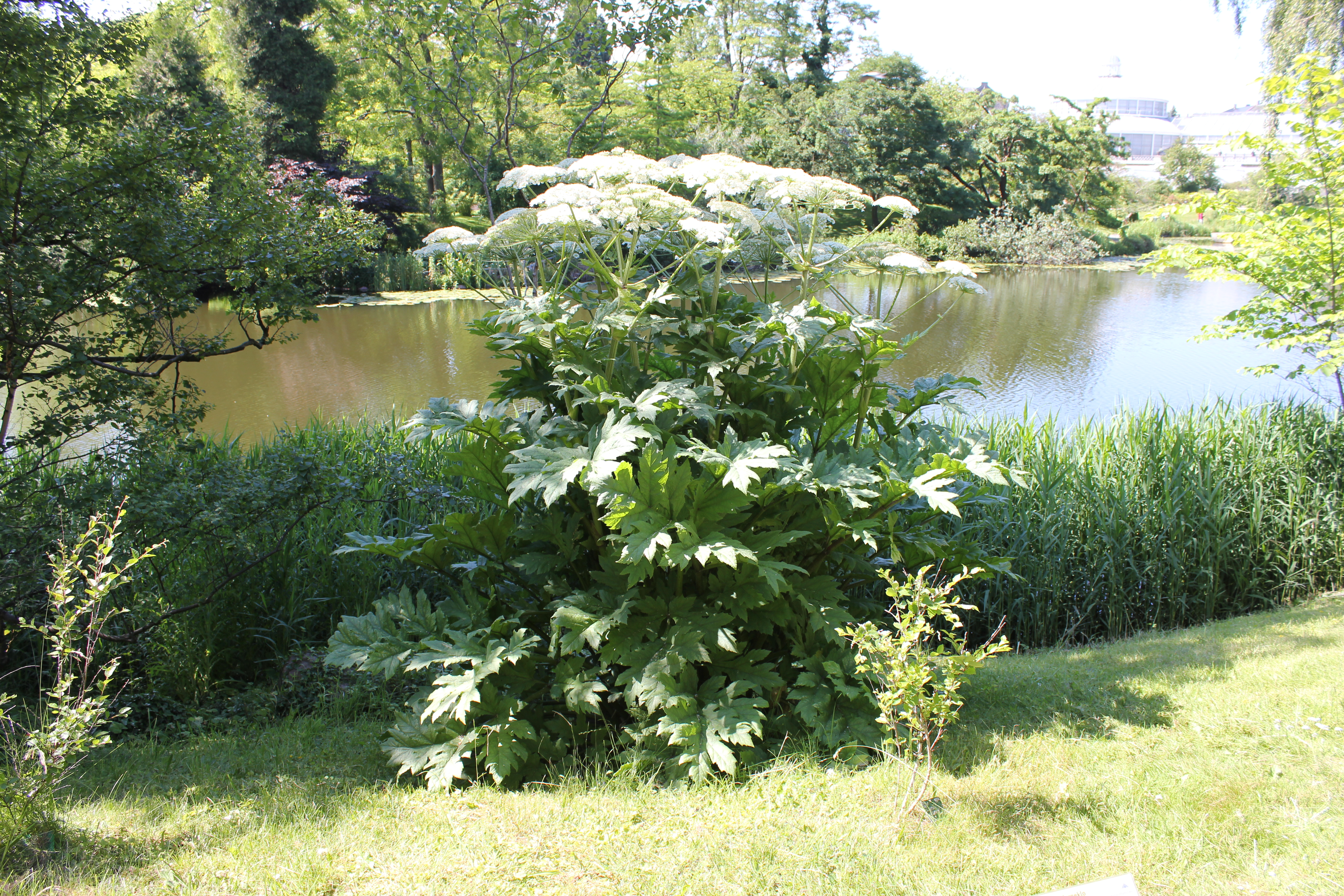 Heracleum Lehmannianum, a species of hogweed. From the Botanical Garden in Copenhagen.